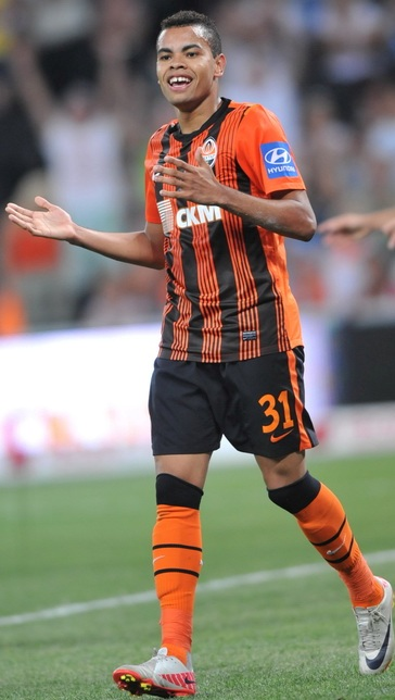 Dentinho